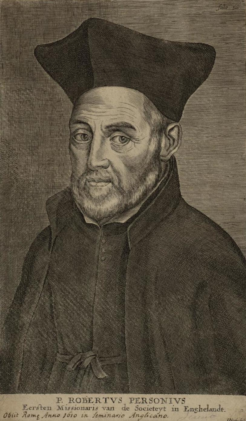 A portrait from the Welsh Portrait Collection at the National Library of Wales. Depicted person: Robert Persons – English Jesuit priest